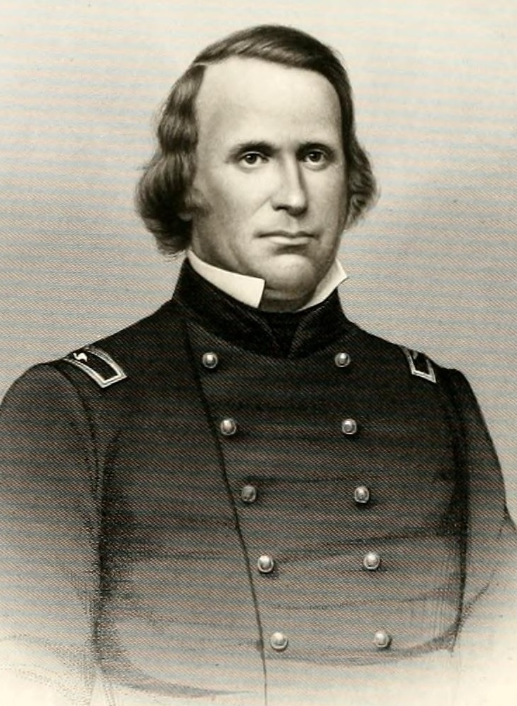 Vice President Henry Wilson (1812-1875) as Colonel and commander, 22nd Massachusetts Volunteer Infantry, Union Army, 1861.